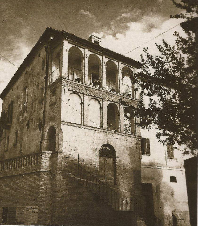 A palace in Chieti demolished in the 1960s